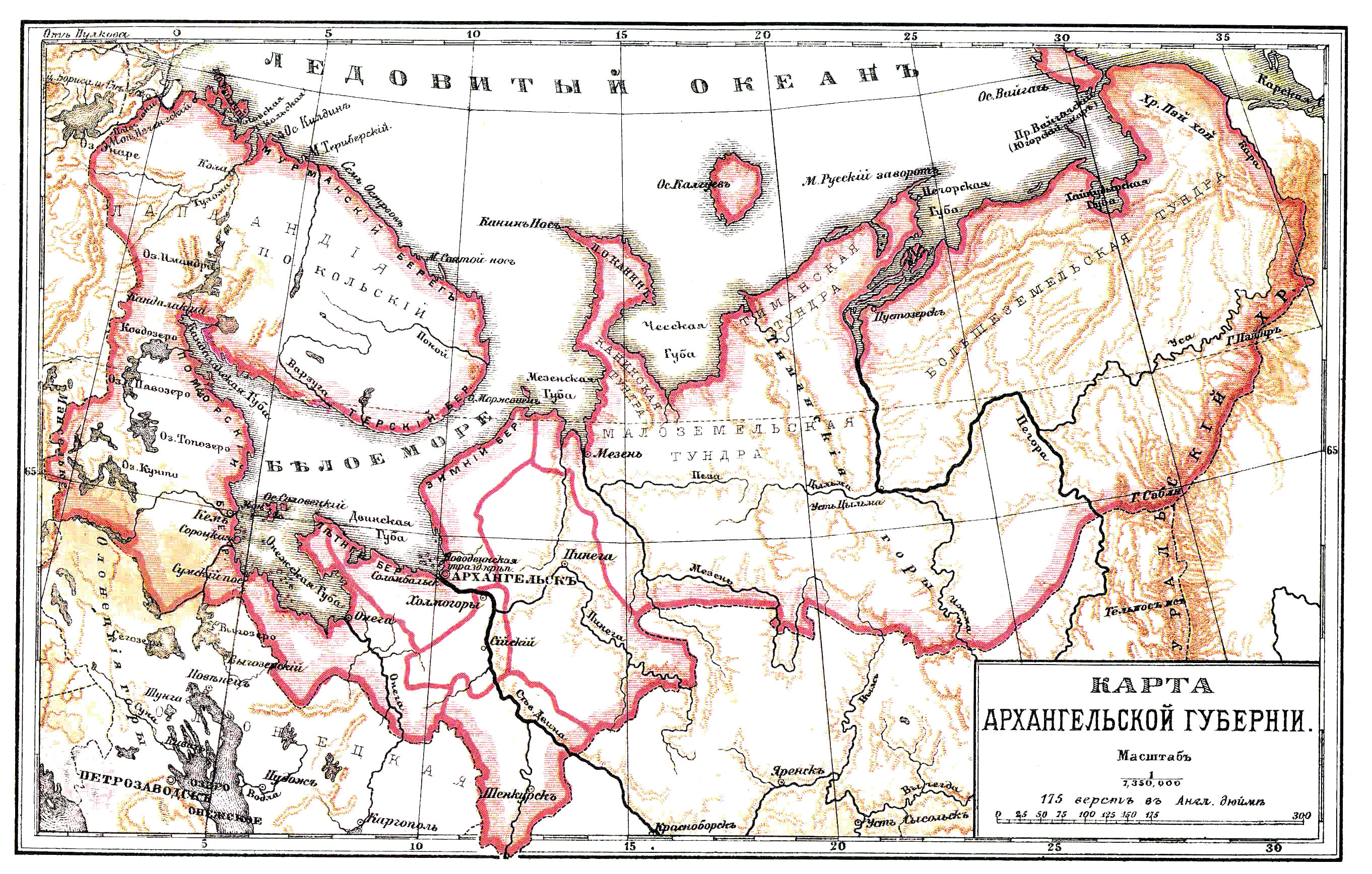 Illustration from Brockhaus and Efron Encyclopedic Dictionary (1890—1907)